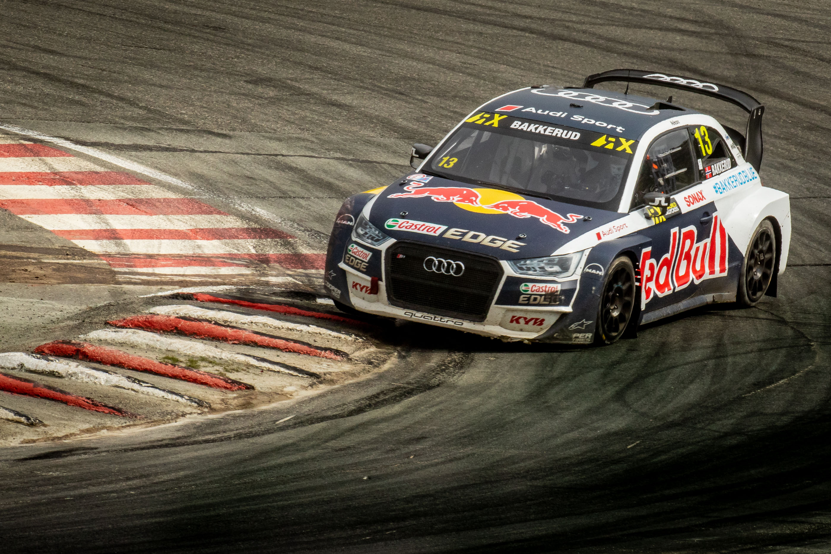 2018 FIA World Rallycross Championship // Round 5, Hell, Norway // Credit: EKS Audi Sport